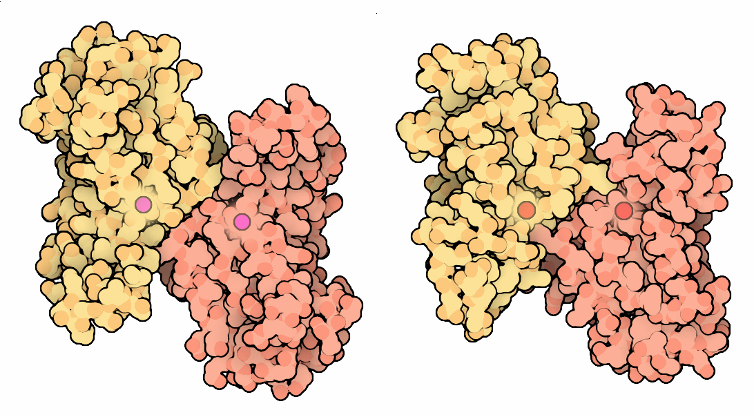 Space-fill drawing of the very similar Mn-containing (left) and Fe-containing (right), dimeric forms of the superoxide dismutase enzyme. Drawn by David Goodsell from PDB files 1MSD and 3SDP.